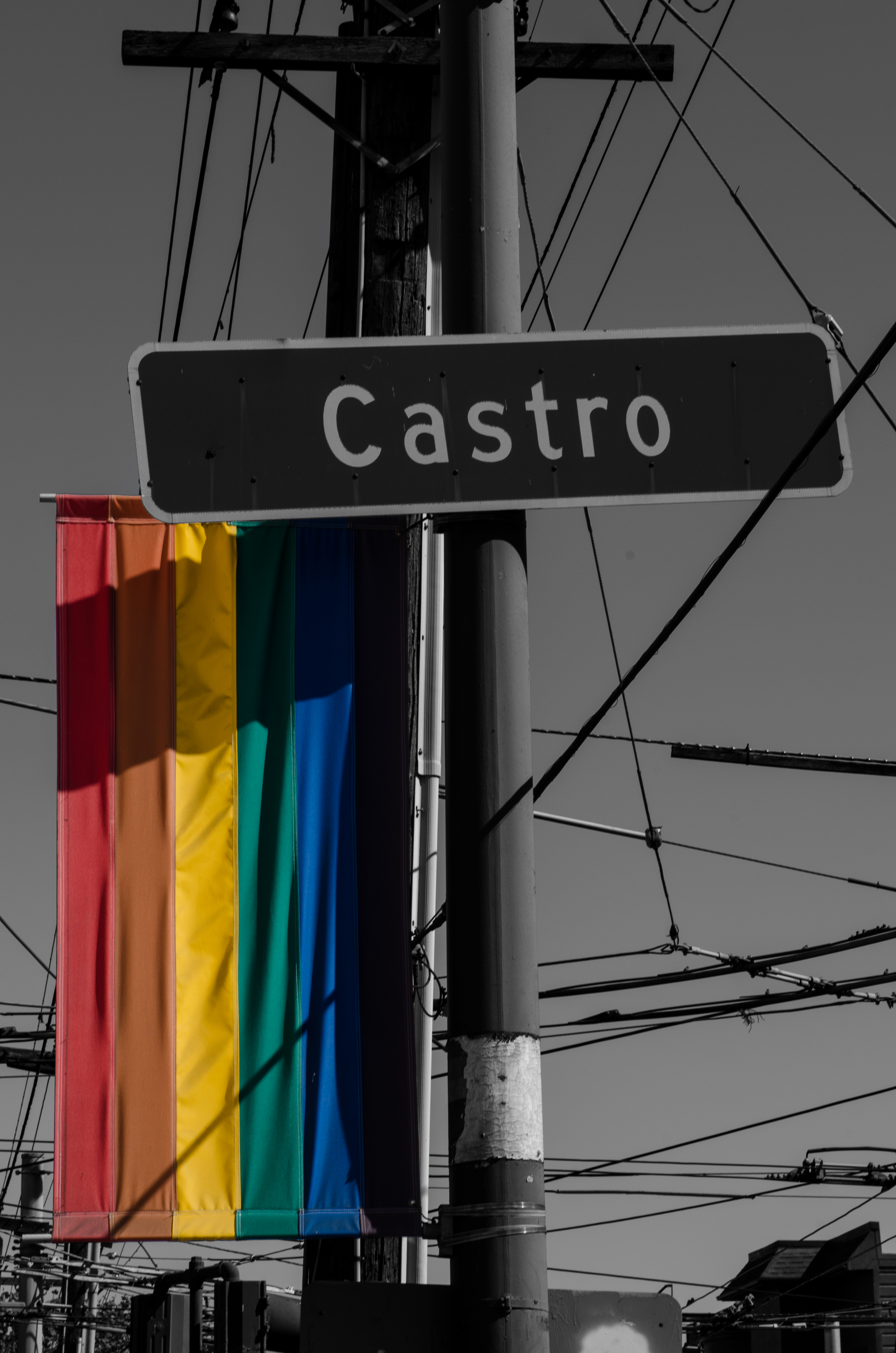 Castro & Gay flag, San Francisco, CA